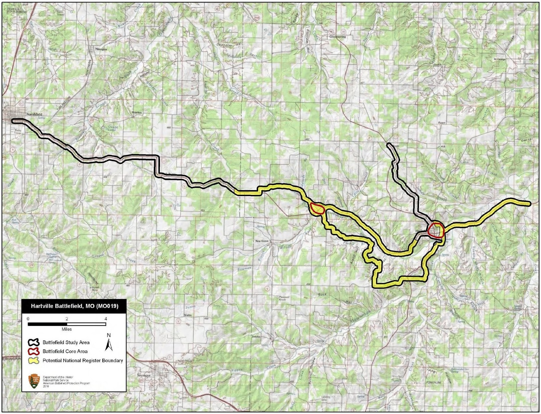 Map of battlefield core and study areas. The ABPP revised the 1993 Study Area and extended the Confederate approach route to Marshville where Porter and Marmaduke's forces met prior to moving east. The Confederate flanking maneuver around Merrill's position at Wood's Fork, the Confederate route of retreat toward Houston, and the Union route of retreat towards Lebanon were also added to the Study Area. The ABPP added a new Core Area at Wood's Fork where Federal and Confederate forces first clashed. The Core Area at Hartsville was adjusted slightly to better represent the range of artillery used by both forces.